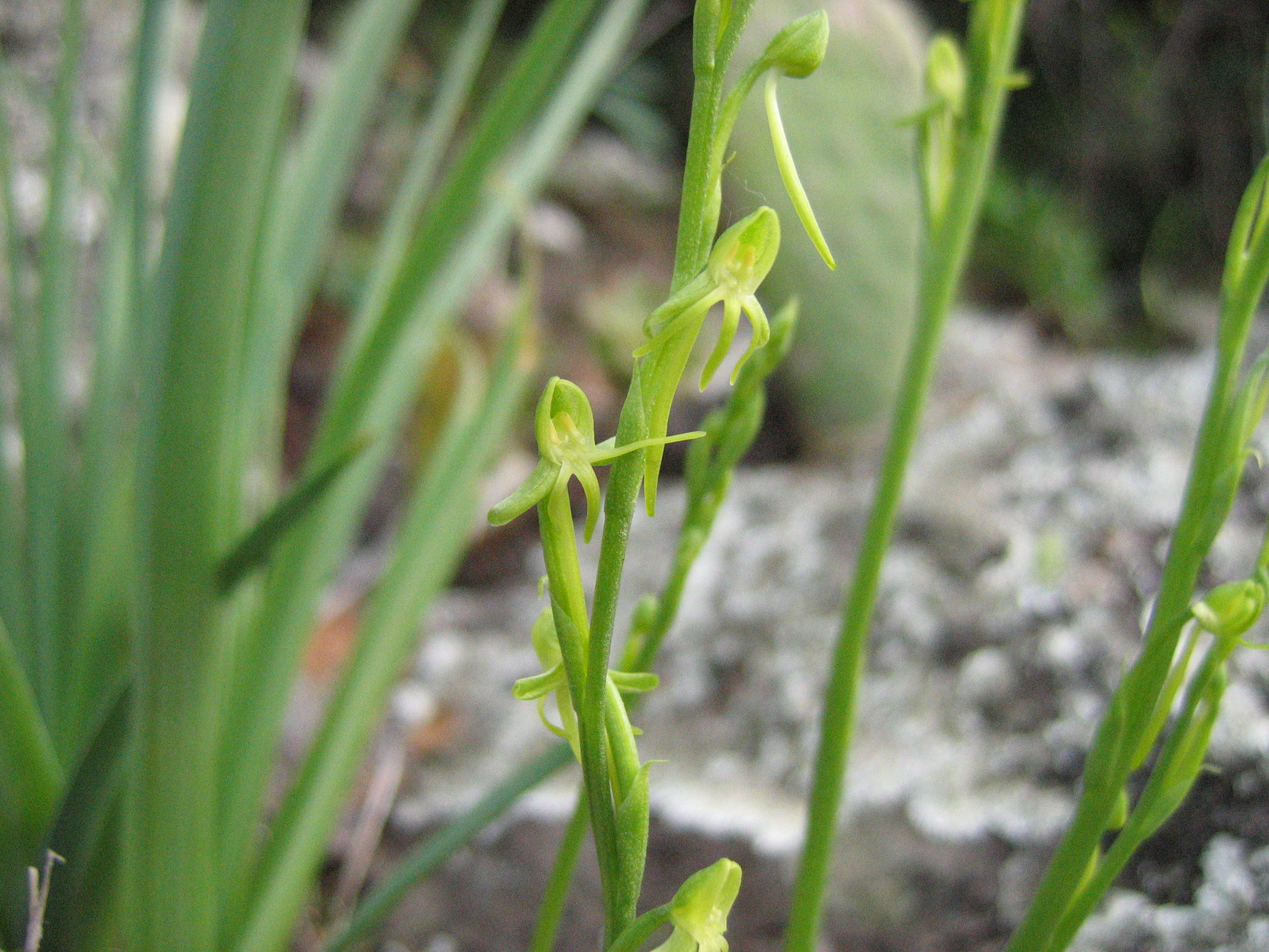 Habenaria tridactylites Lindl., Orchidaceae, Tenerife, North Coast, road from Garachico to El Tanque